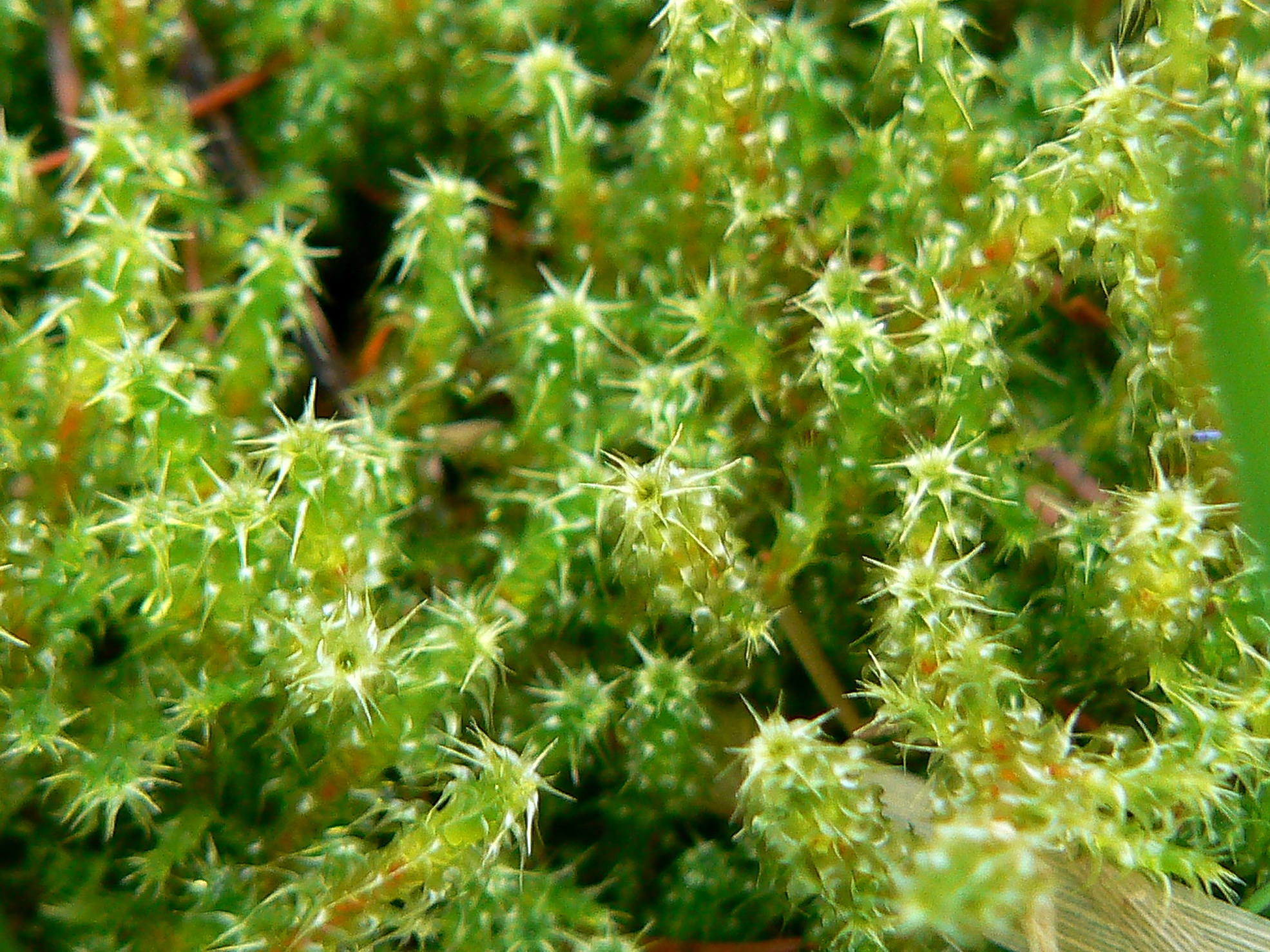 Rhytidiadelphus squarrosus, Brasschaat, Belgium